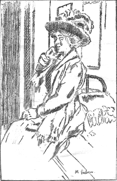 Sketch of "Ethel" by Mary Godwin. Published in "The New Age" in 1914, as an example of modernism.